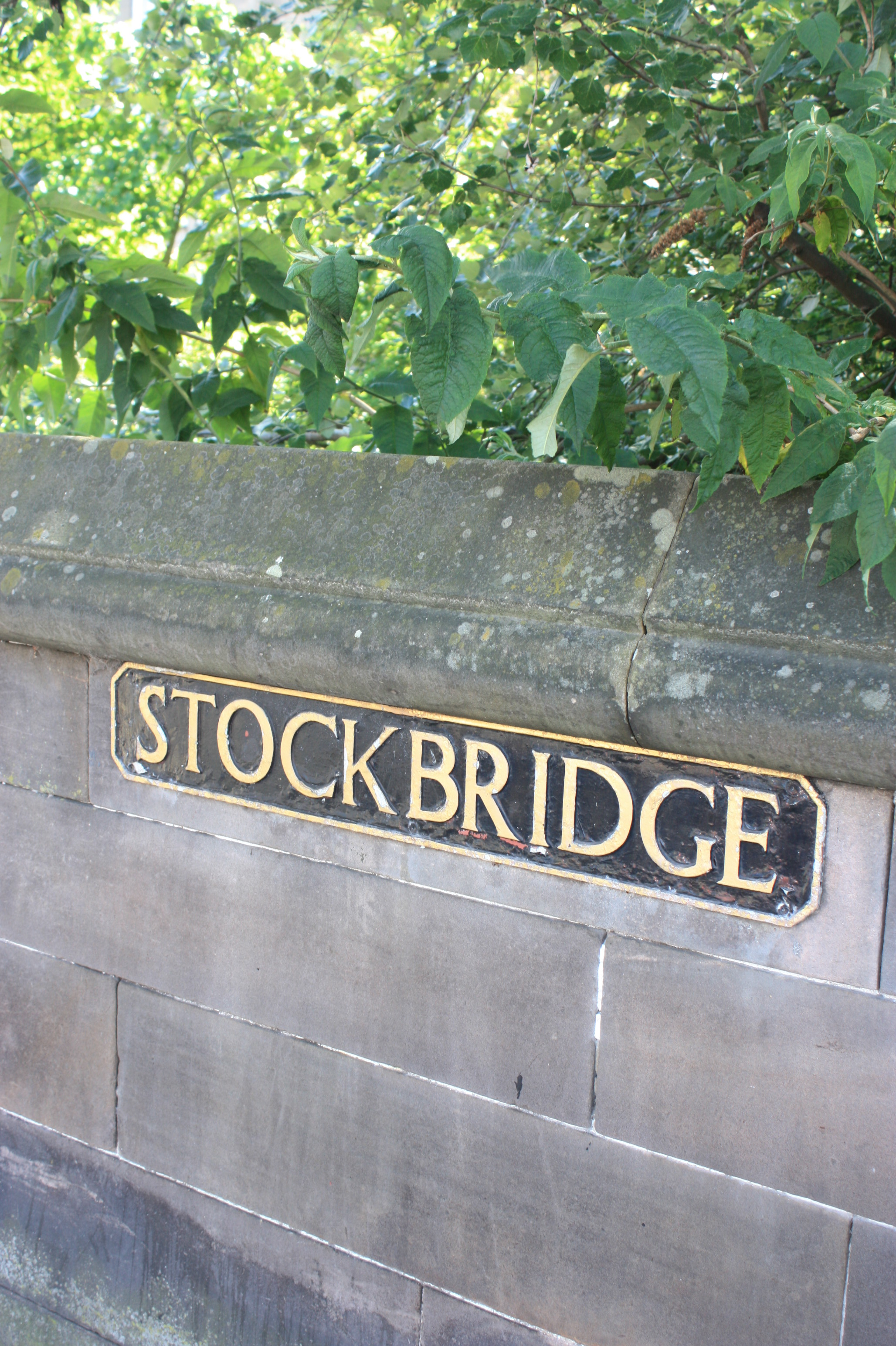 Stockbridge road sign, Edinburgh